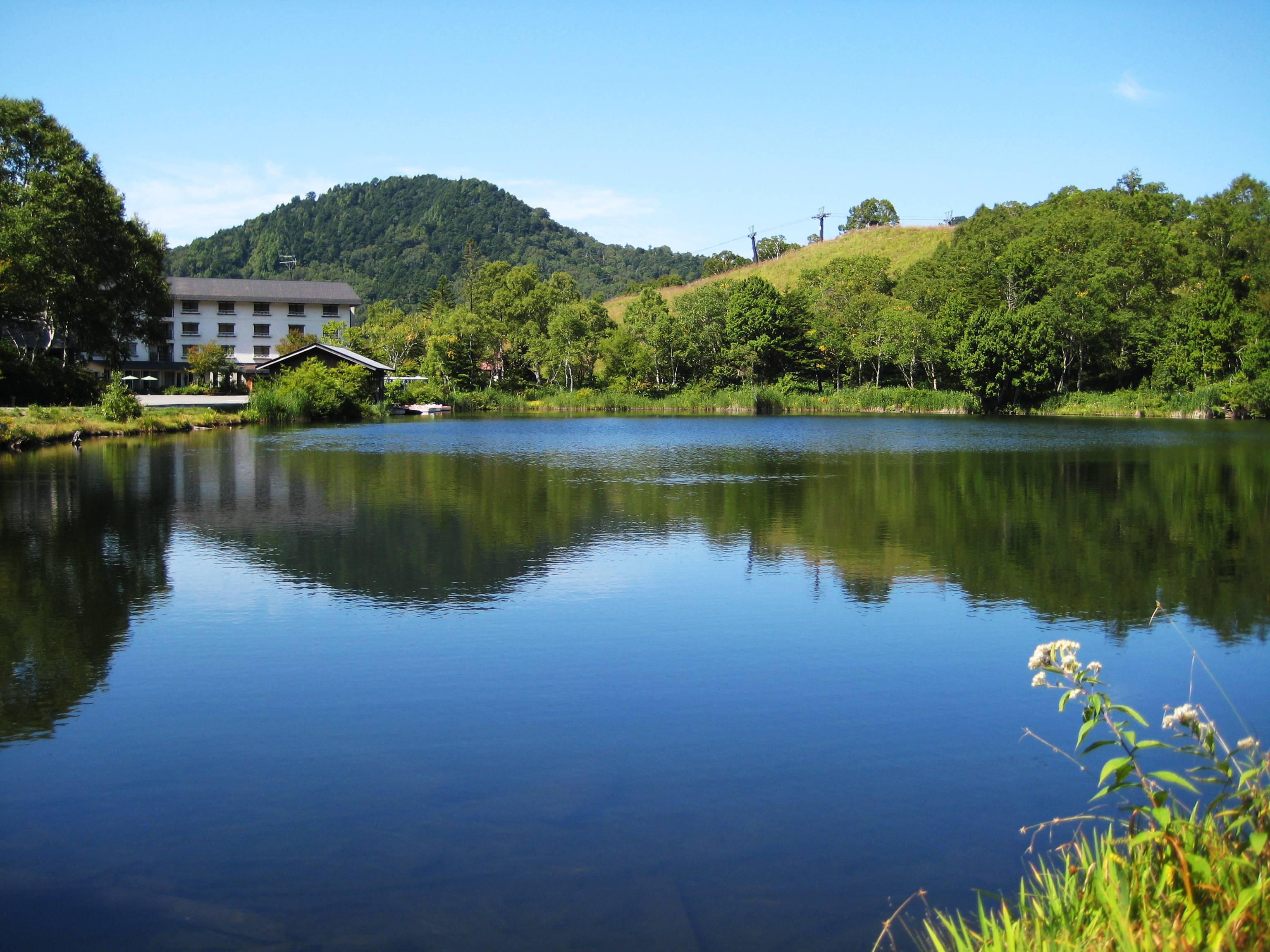 Kidoike.